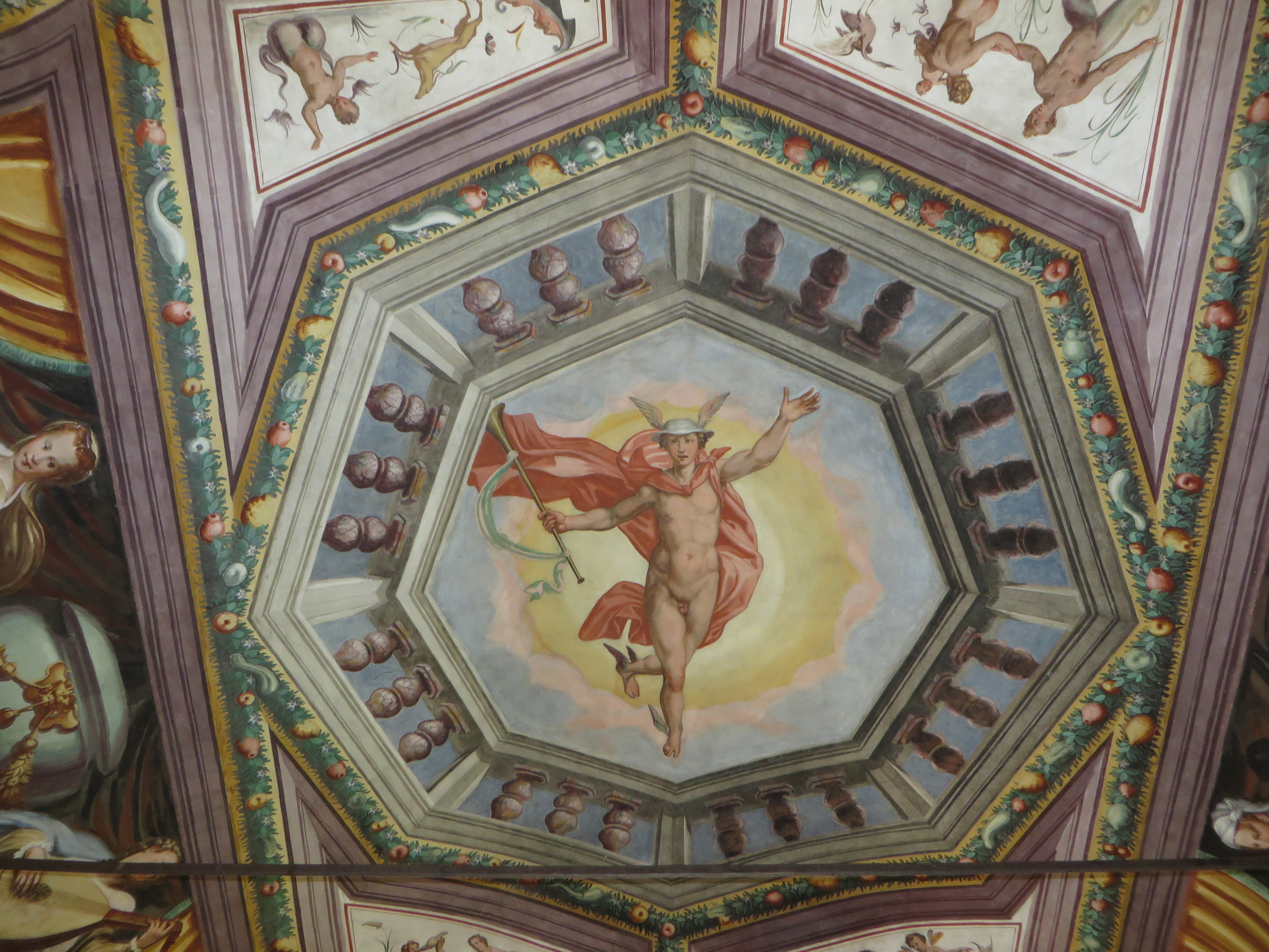 Rossi Castle San Secondo 3